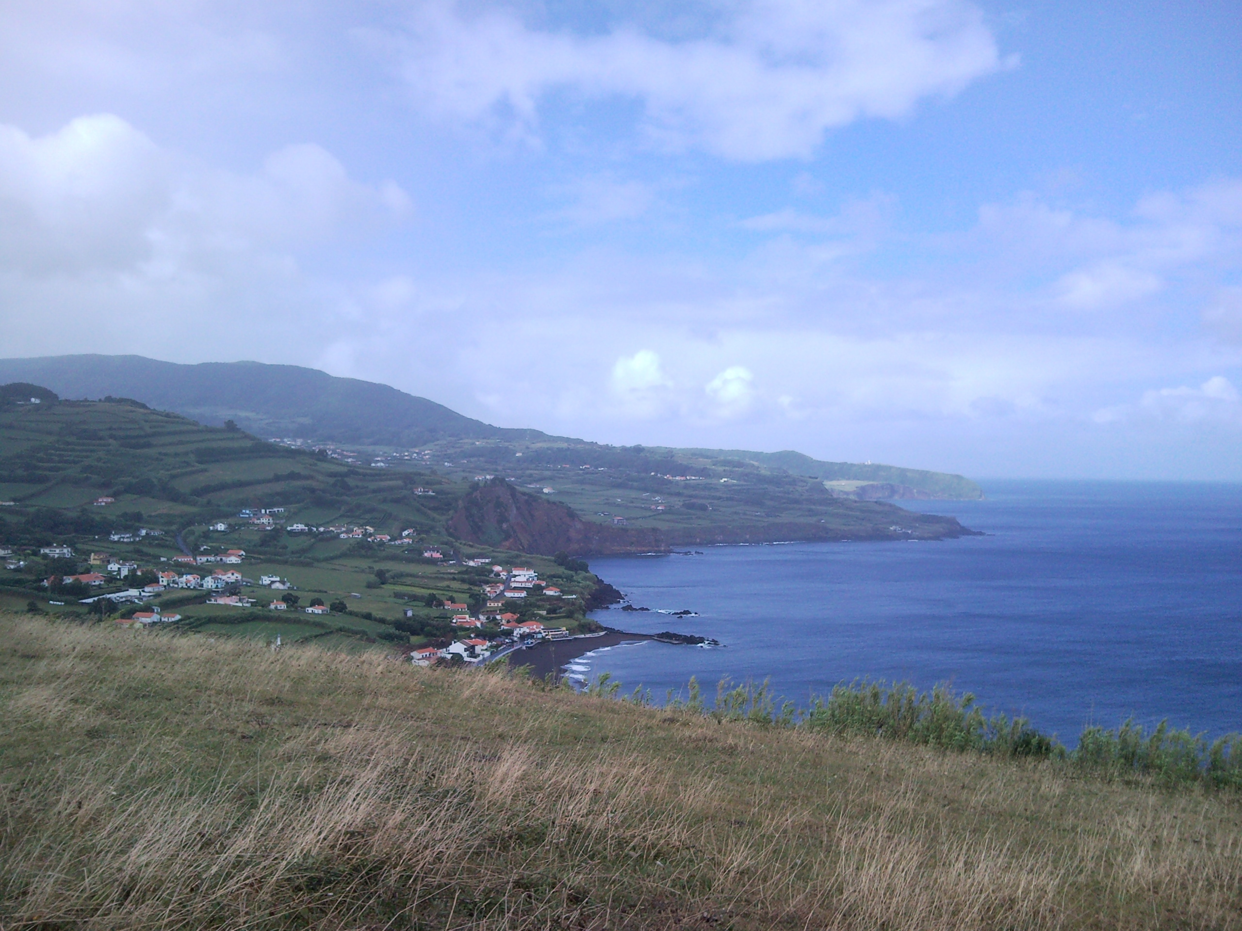 Praia do Almoxarife, freguesia, Concelho da Horta, ilha do Faial, Açores, Portugal